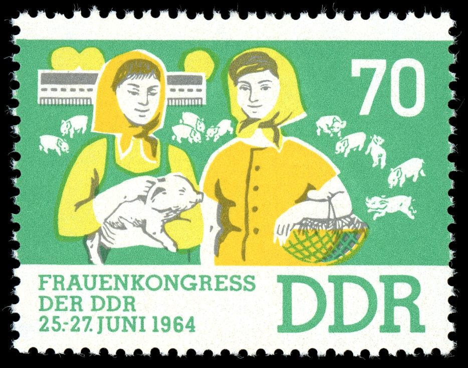 Ausgabepreis: 70 Pfennig First Day of Issue / Erstausgabetag: 25. Juni 1964 Auflage: 3.500.000 Entwurf: Böhme Druckverfahren: Offsetdruck Michel-Katalog-Nr: Ländercode-MiNr: 1032 Licensing This file is most likely NOT in the public domain. It has been marked for review, and will be deleted in due course if the review does not find it to be in the public domain. This file was previously considered to be in the public domain as a German stamp; it is possible that it is in the public domain for other reasons, in which case a new rationale will be applied as part of the review process. See below for the previous rationale. Previous public domain rationale, no longer applicable This stamp is in the public domain in Germany because it was released by the postal administration of the German Democratic Republic or the Soviet occupation zone (Deutschen Post der DDR) whose legal successor is the Federal Republic of Germany. Thus it is an official work according to German copyright law (§ 5 Abs. 1 UrhG).